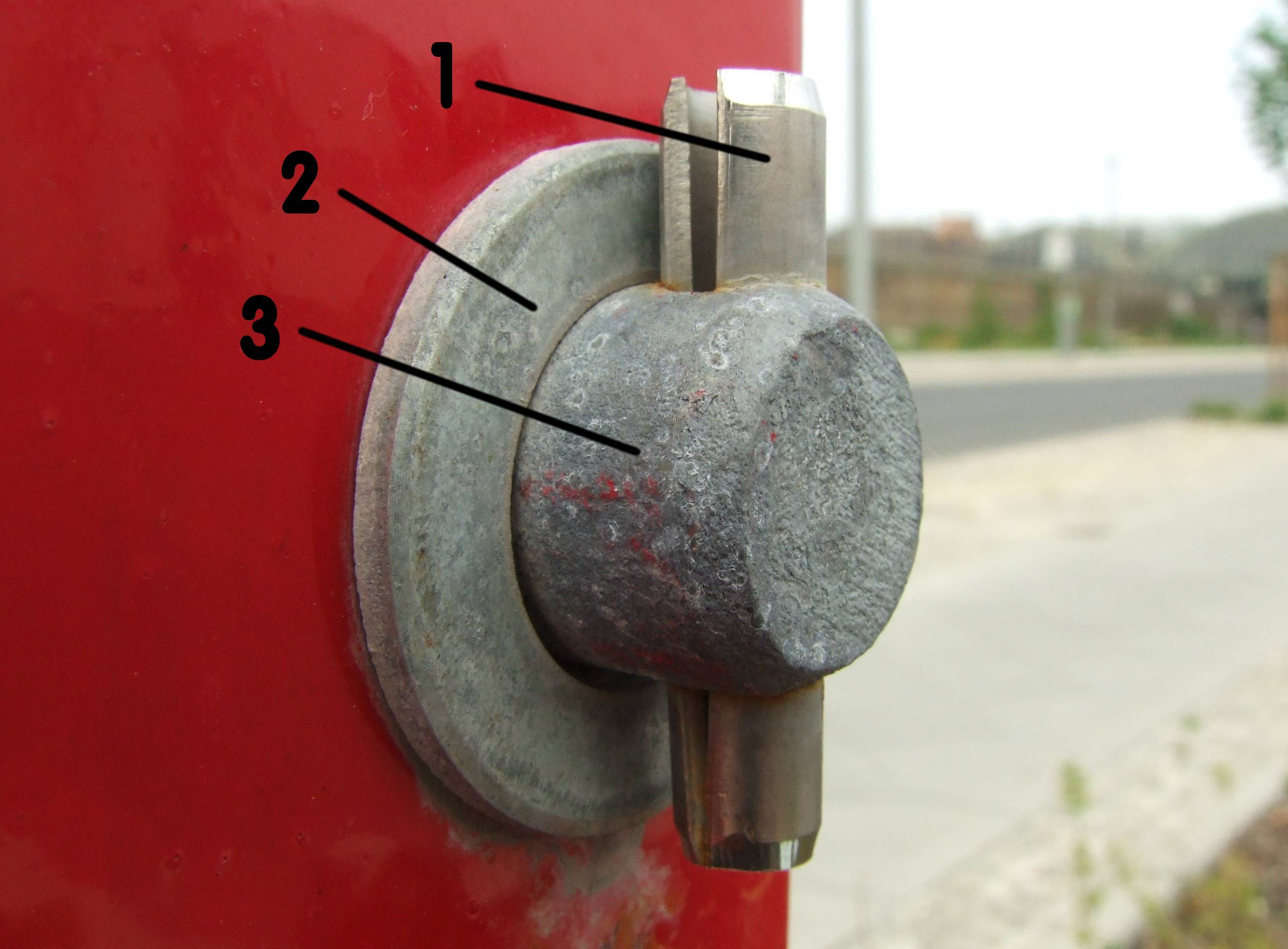 Spring-type straight pin (with washer) used as securing mechanism on a axle. With numbers.